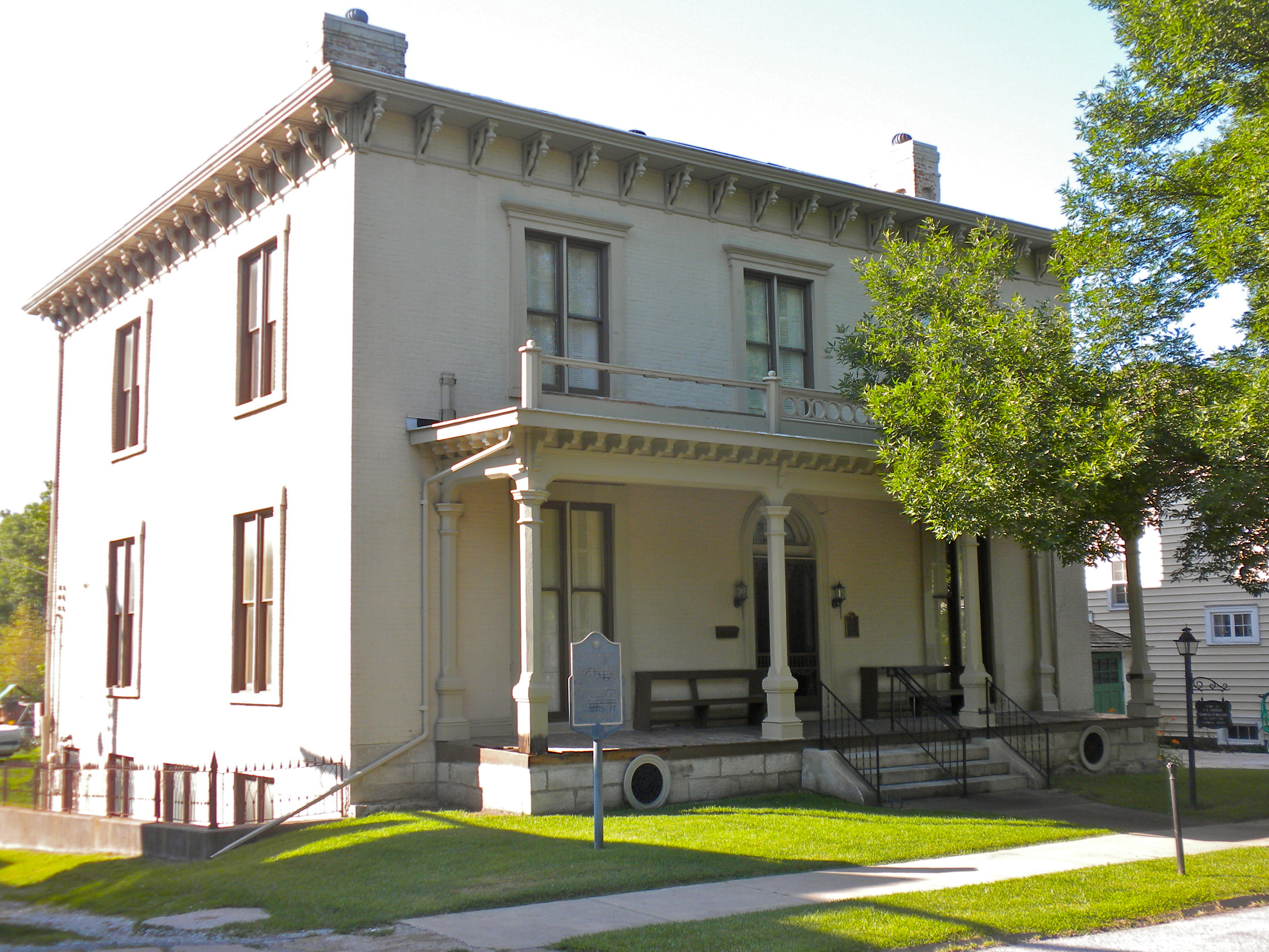 Justice Samuel Freeman Miller House on the NRHP since October 10, 1972. At 318 N. 5th St., Keokuk, Iowa. Miller was appointed to the US Supreme Court by Abraham Lincoln. House is fairly modest compared to may of its neighbors